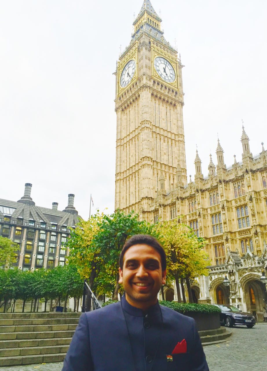 During an official visit to the British Parliament at the Palace of Westminster, London